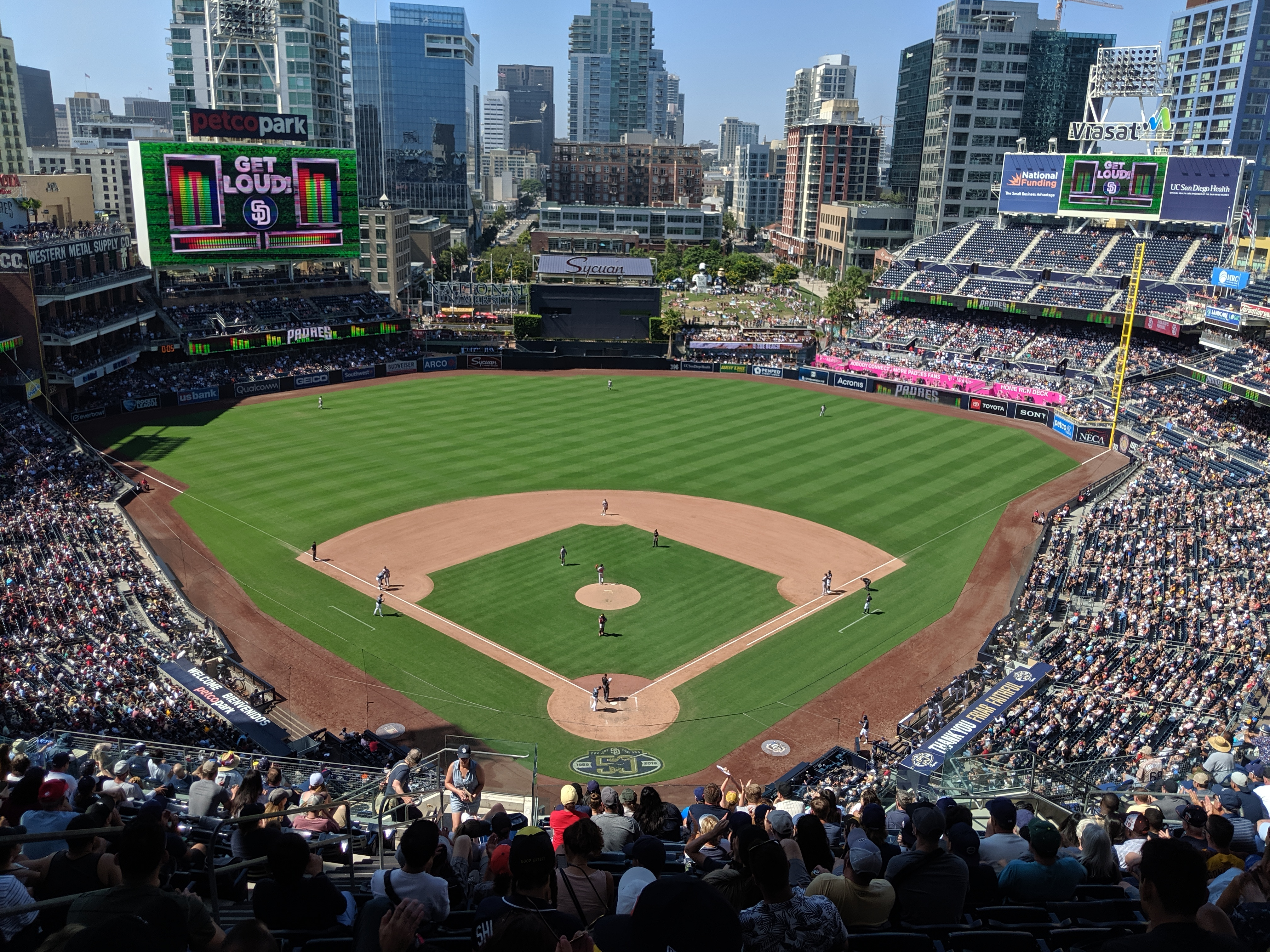 The San Diego Padres playing in Petco Park in San Diego, California